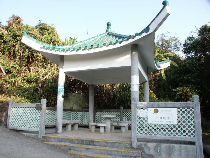 在香港沙田小瀝源的花心坑亭